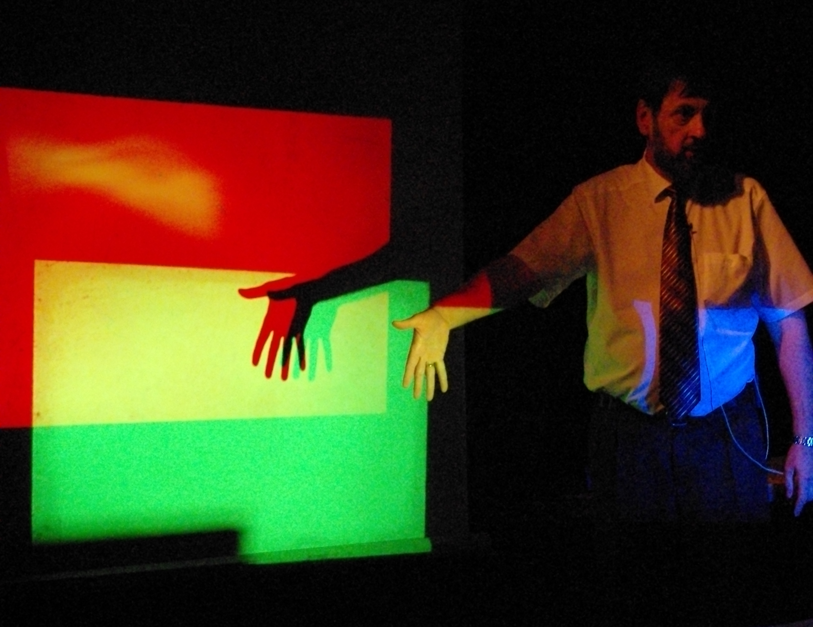 Additive color mixing (red + green = yellow).